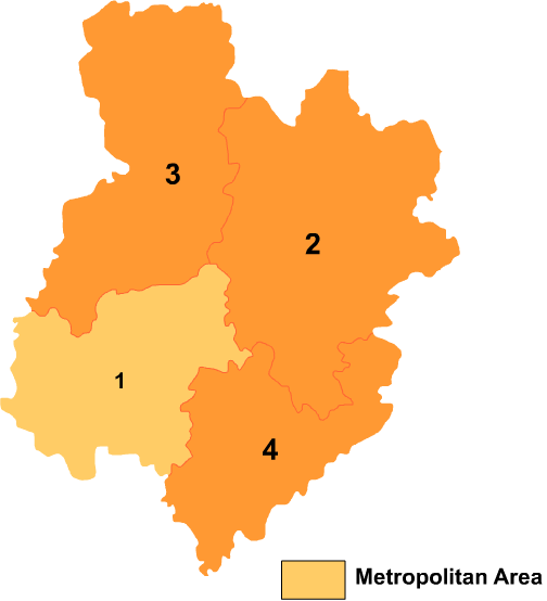 Map of Bazhong in Sichuan province.